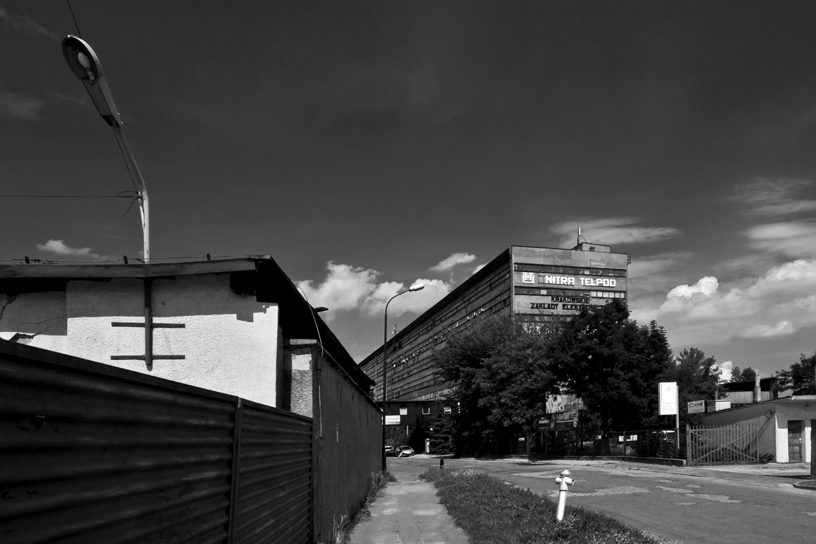 Telpod - Unitra facotry, fot. Rafał Sosin